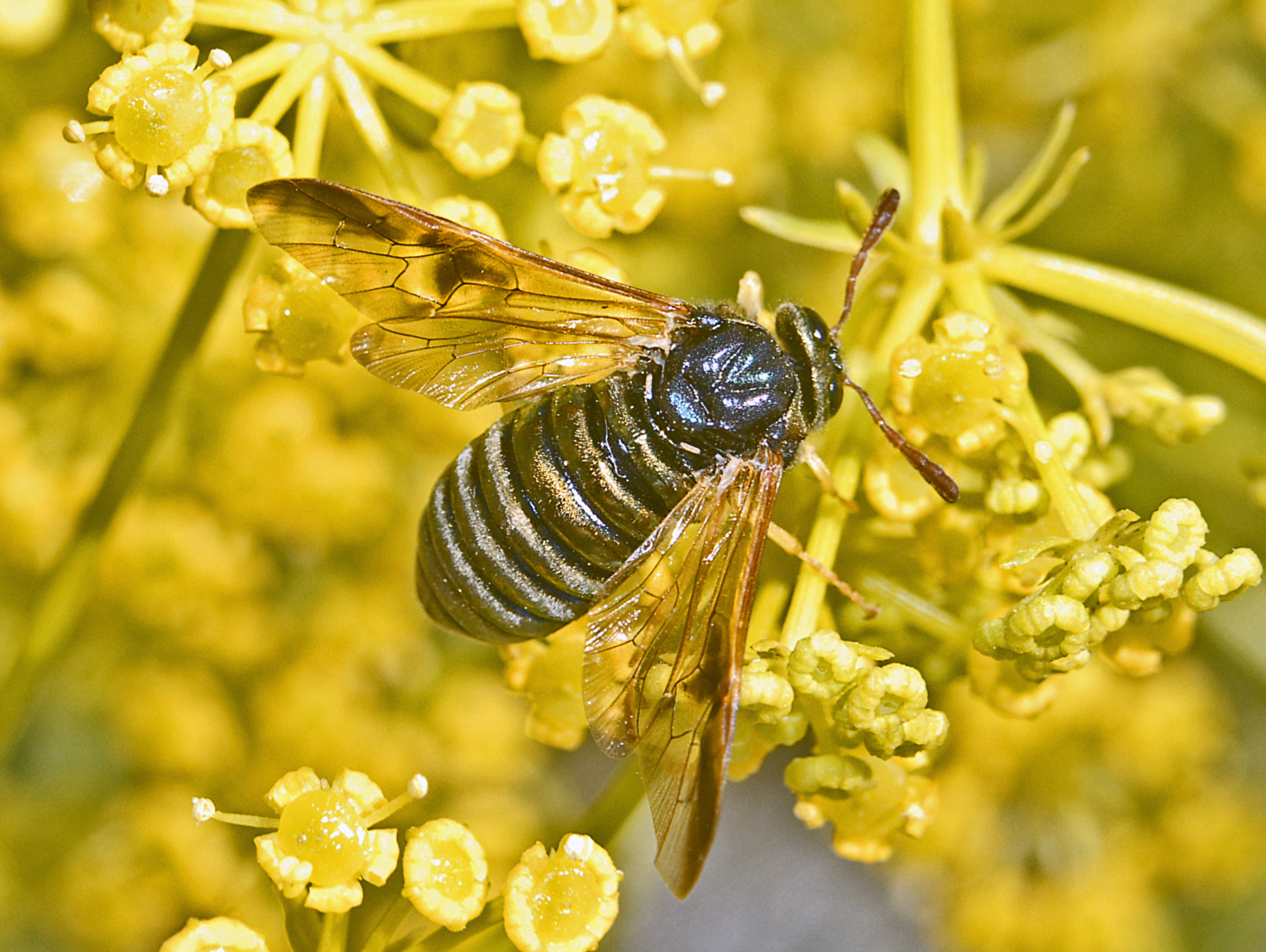 Female of Abia sericea feeding on Ferulago campestris. Monte Fasce, Genova, Italy